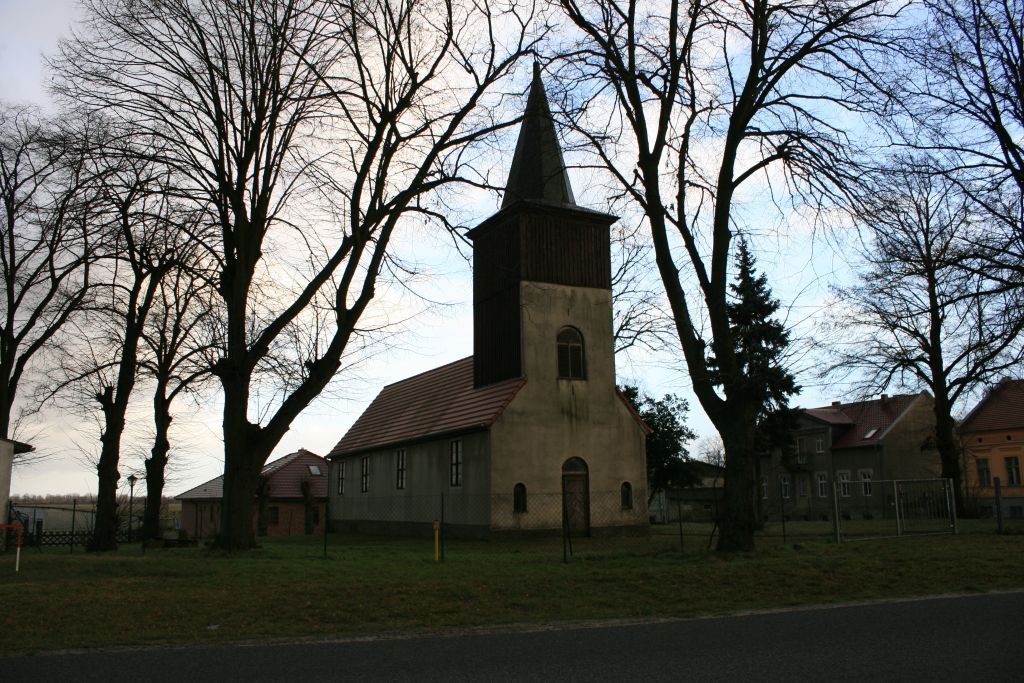 Church in Warsow in Brandenburg, Germany